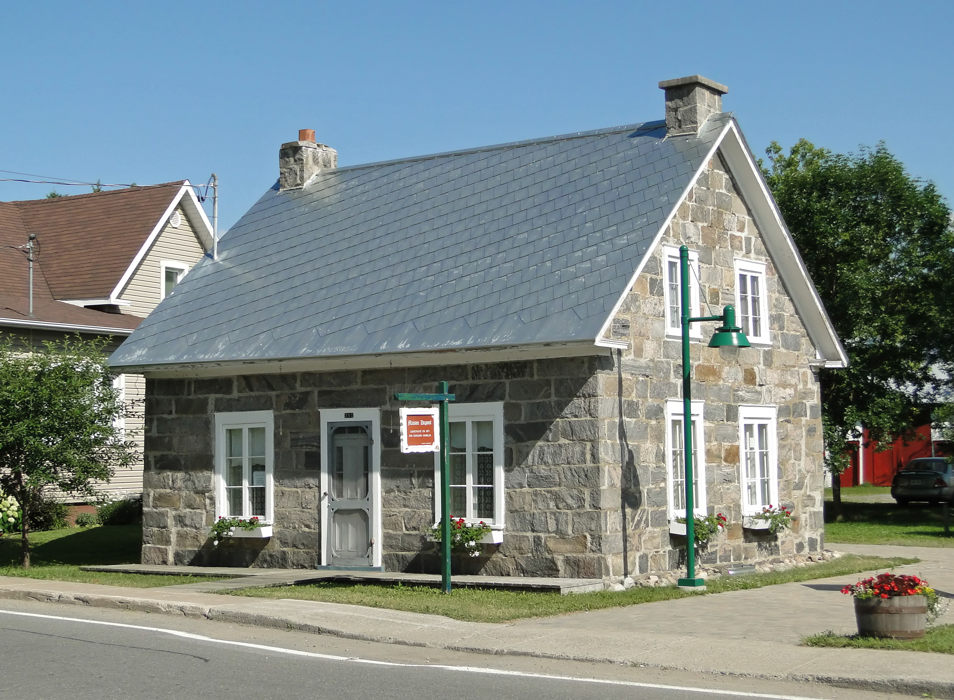 Dupont House (1871) in Saint-Narcisse, Quebec, Canada